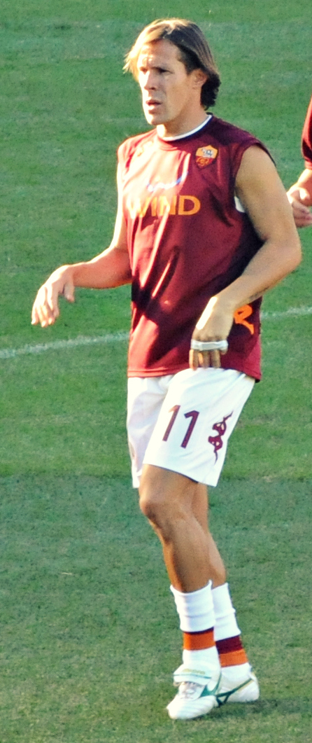 Rodrigo Taddei before the game between Liverpool and AS Roma at Fenway Park, 25 July 2012.